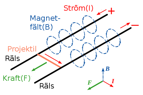 Swedish translastion of the image Railgun-1.svg by Stannered/DrBob